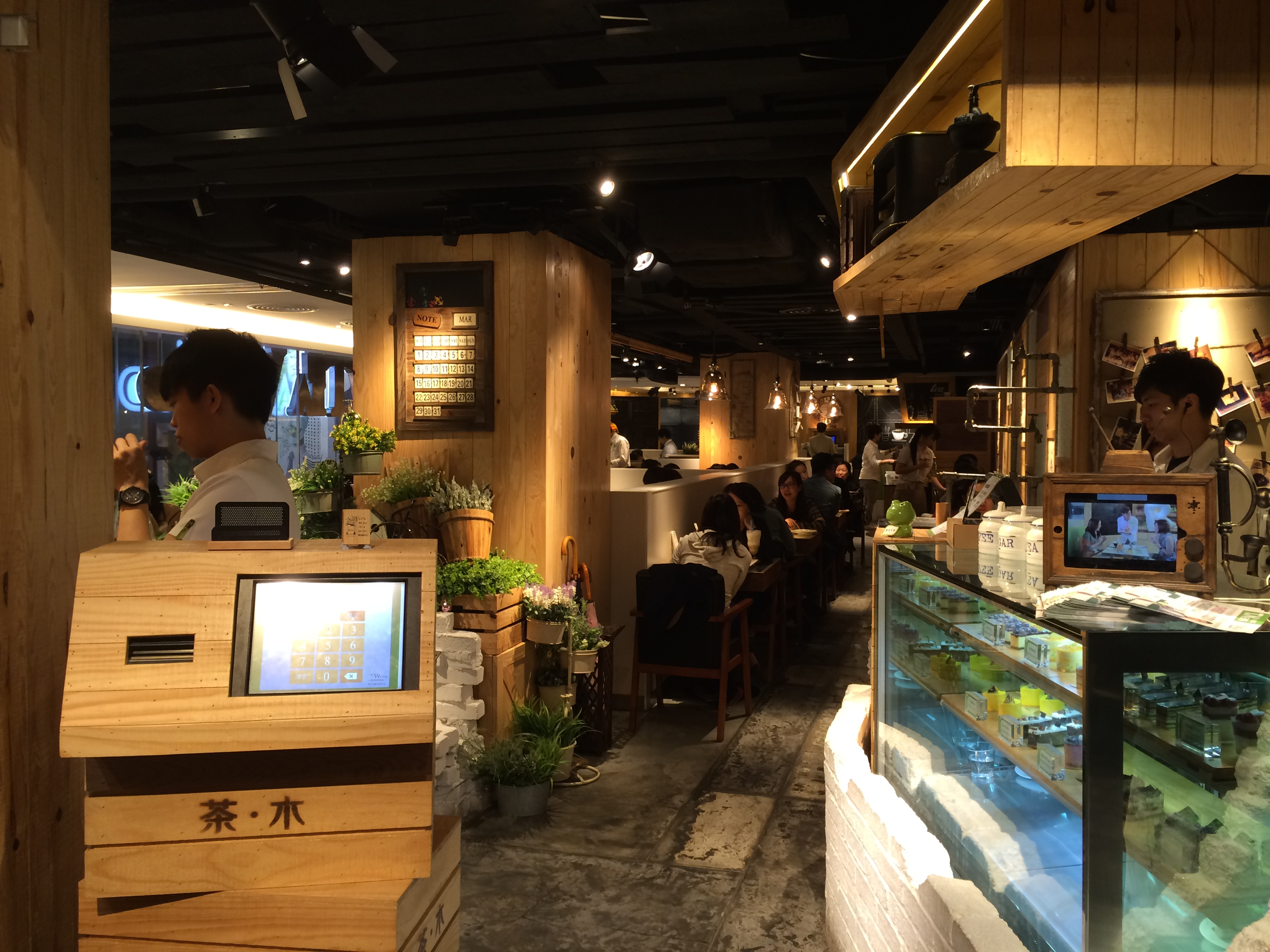 TeaWood Taiwanese Cafe & Restaurant in TST